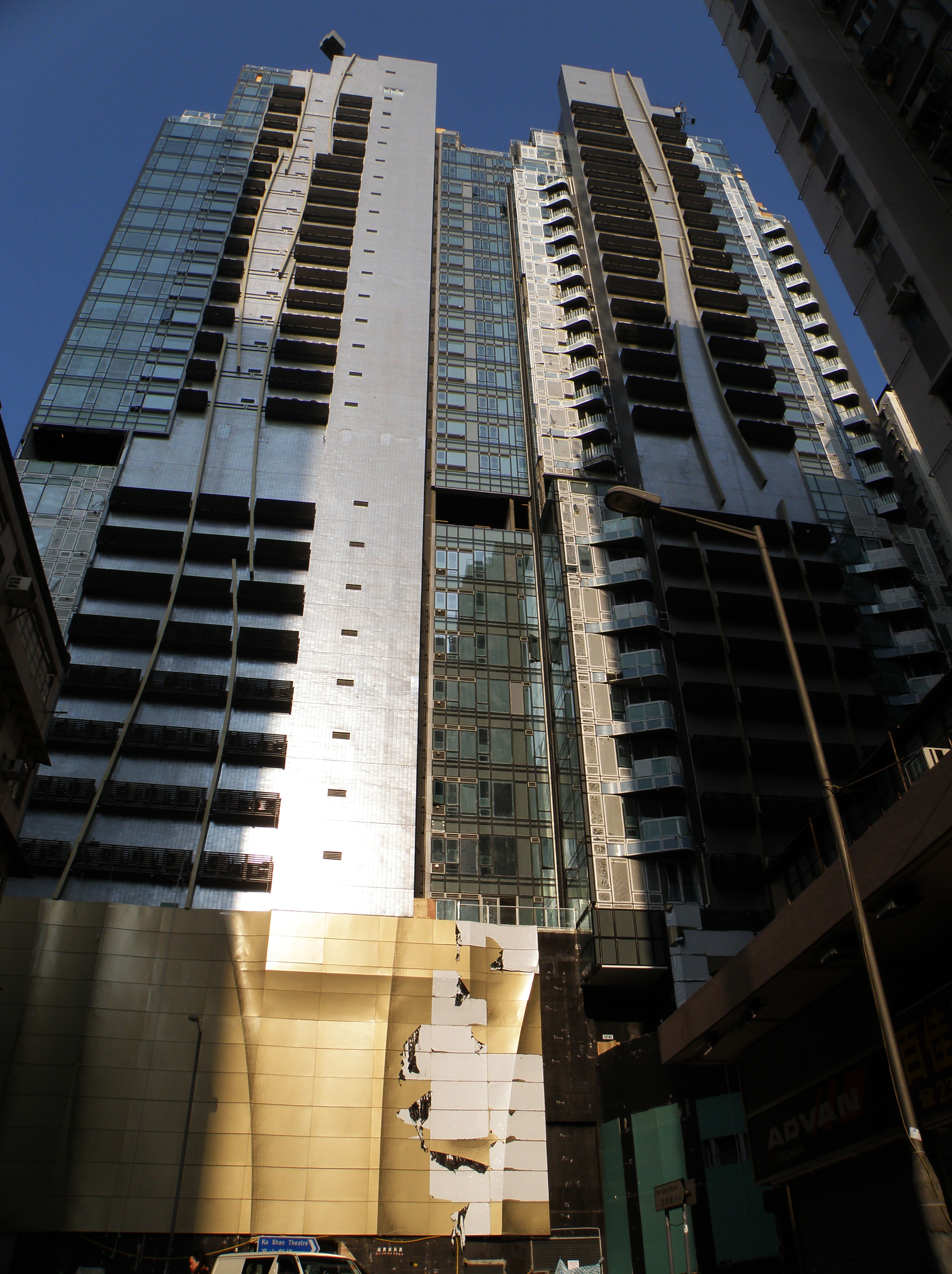 Homantin Hillside in Ho Man Tin, Hong Kong.